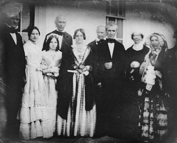 A gathering on the South Portico of the White House of President Polk, Dolley Madison, and James Buchanan, about 1848.